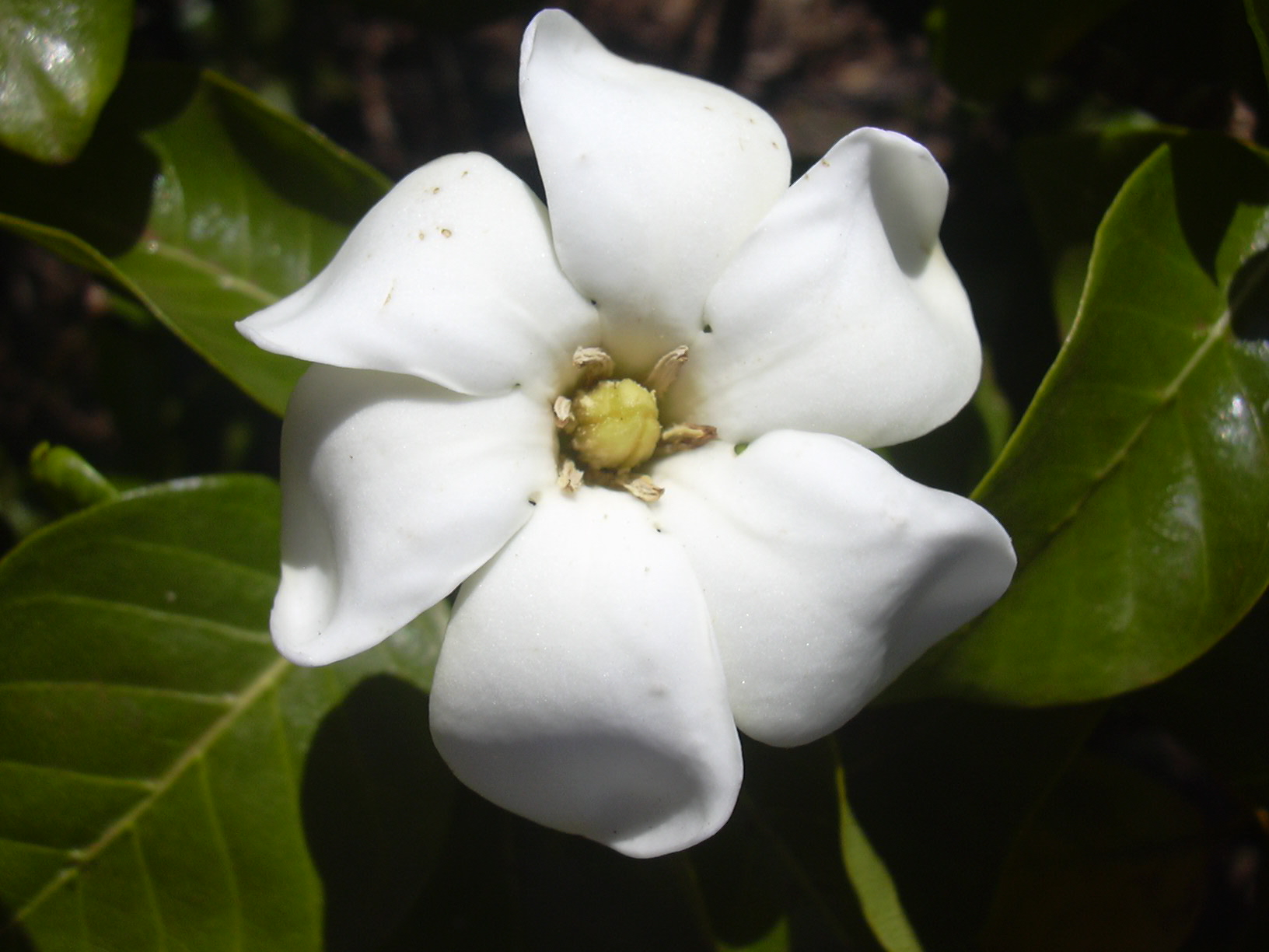 Gardenia brighamii (flower). Location: Maui, State nursery Kahului